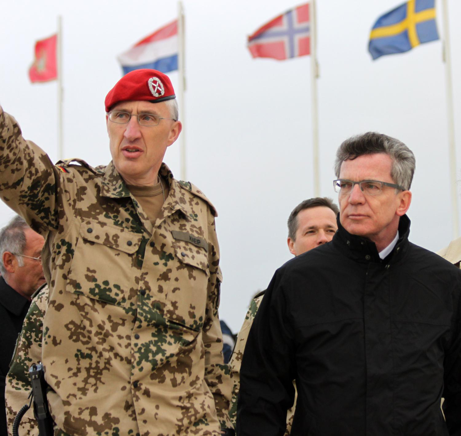 Dr. Thomas de Maizière, Germany's minister of Defense, is guided by German army Maj. Gen. Markus Kneip, Commander, Regional Command North to the command headquarters after a moment of remembrance at the memorial site of fallen soldiers on Camp Marmal.